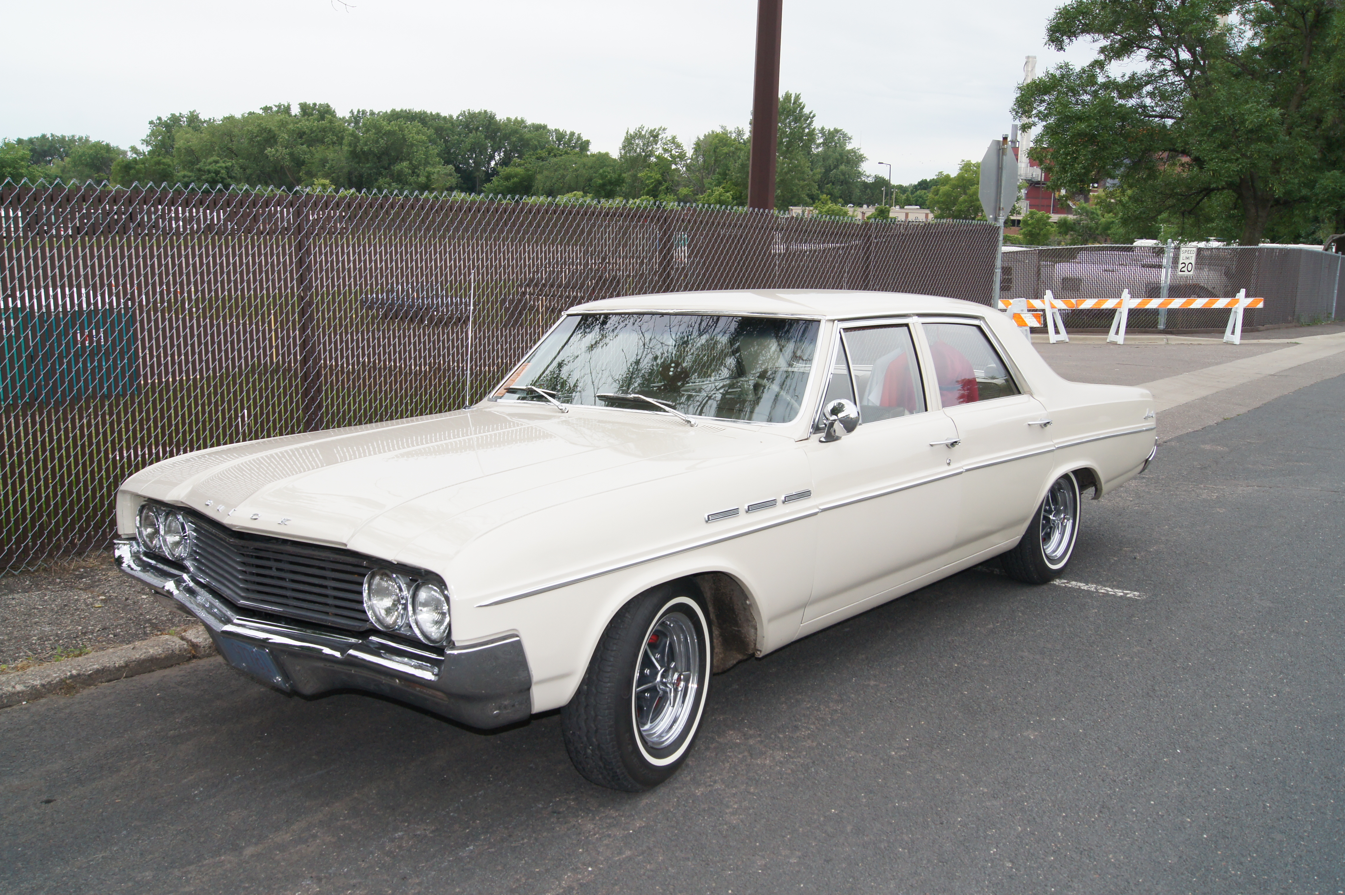 Minnesota Street Rod Association "Back to the Fifties" June 2012 Minnesota State Fairgrounds St. Paul MN